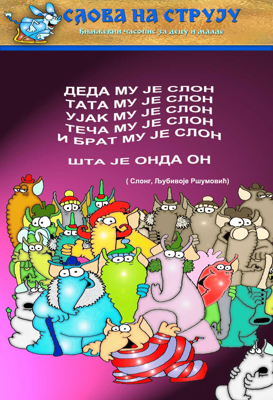 Front page Slova na struju, children magazine, publish by Public Library Radislav Nikčević Jagodina, Serbia, illustrator by Peđa Trajković